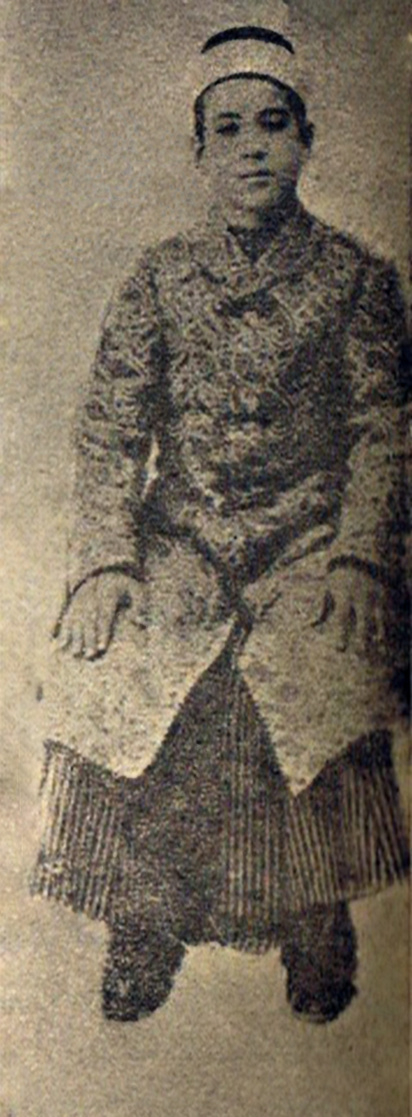 The nationalist leader Nasib al-Bakri, a child at the Rihaniya School in the 1890s